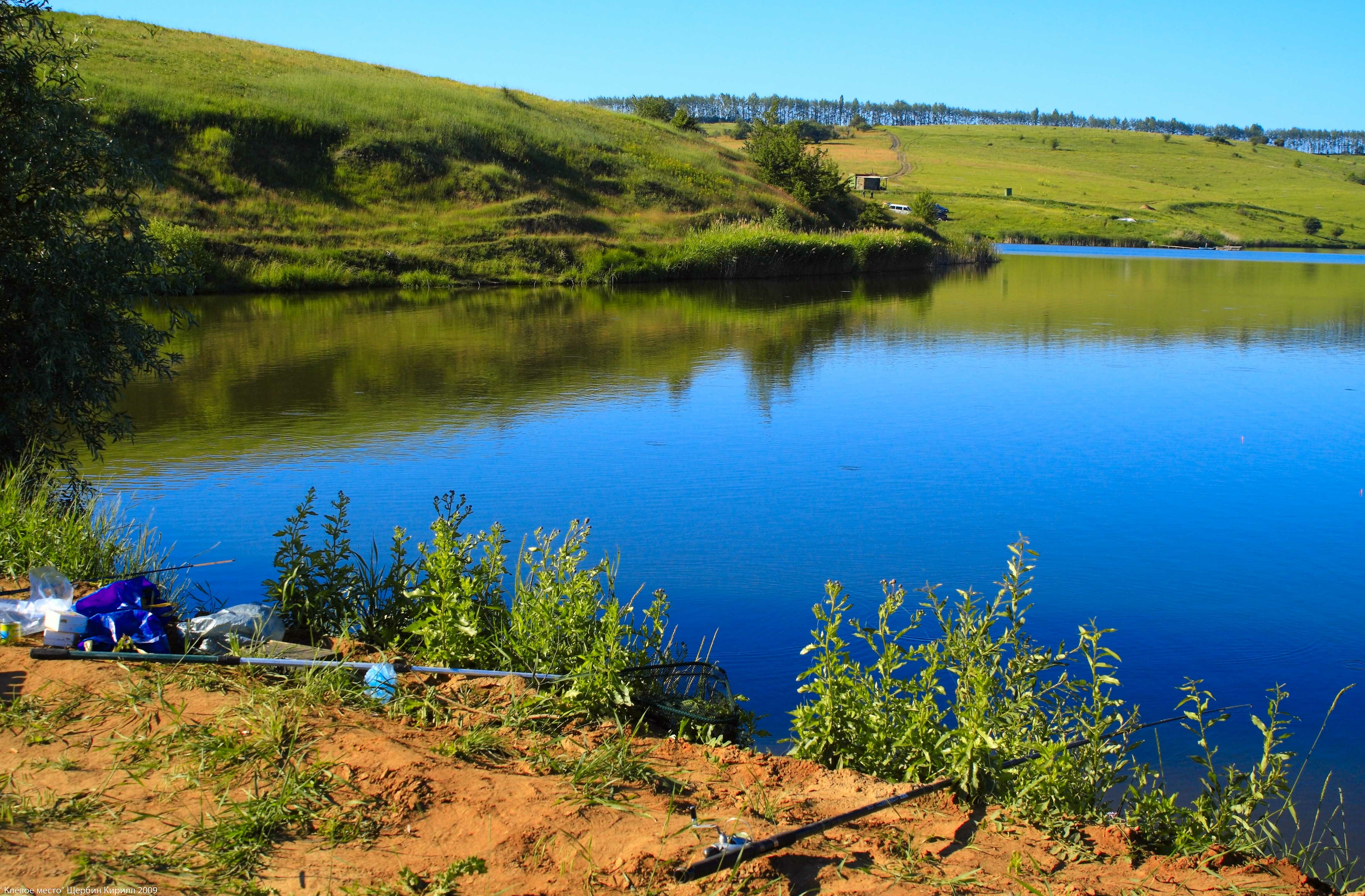 Lake in Kindrashivka, Kharkiv Oblast, Ukraine